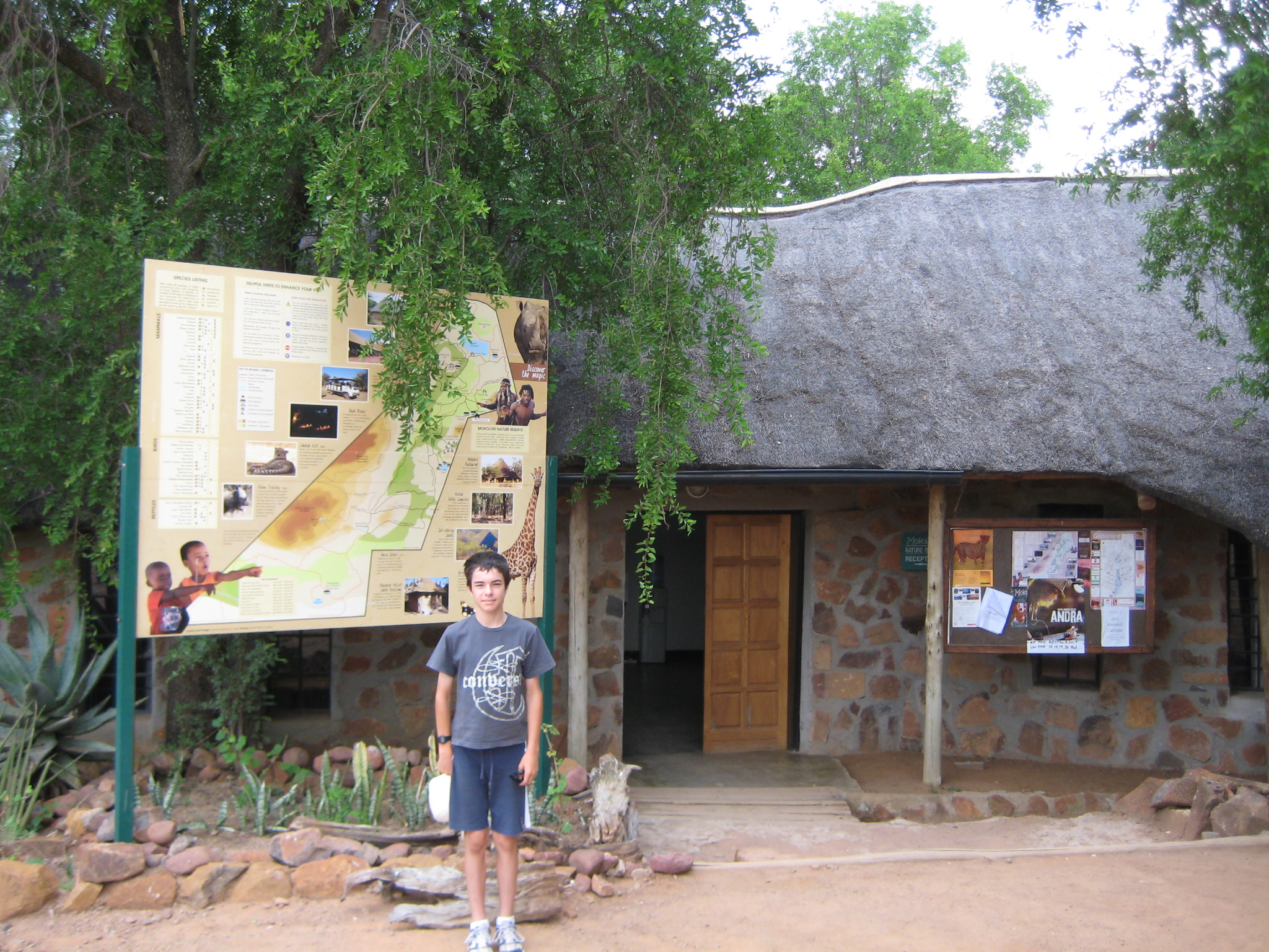 Reception / Entrance to Mokolodi Nature Reserve, Botswana